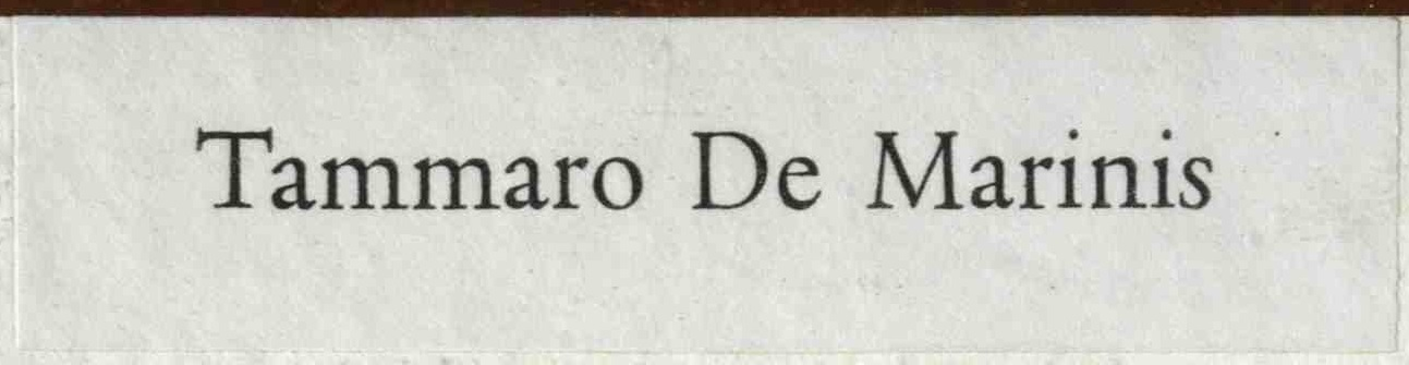 Tammaro De Marinis' ex libris